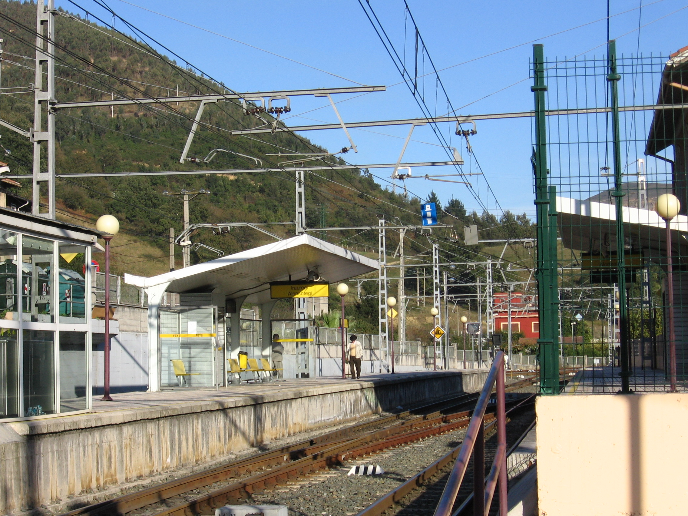 FEVE railway station, Alonsotegi, Bizkaia, Spain